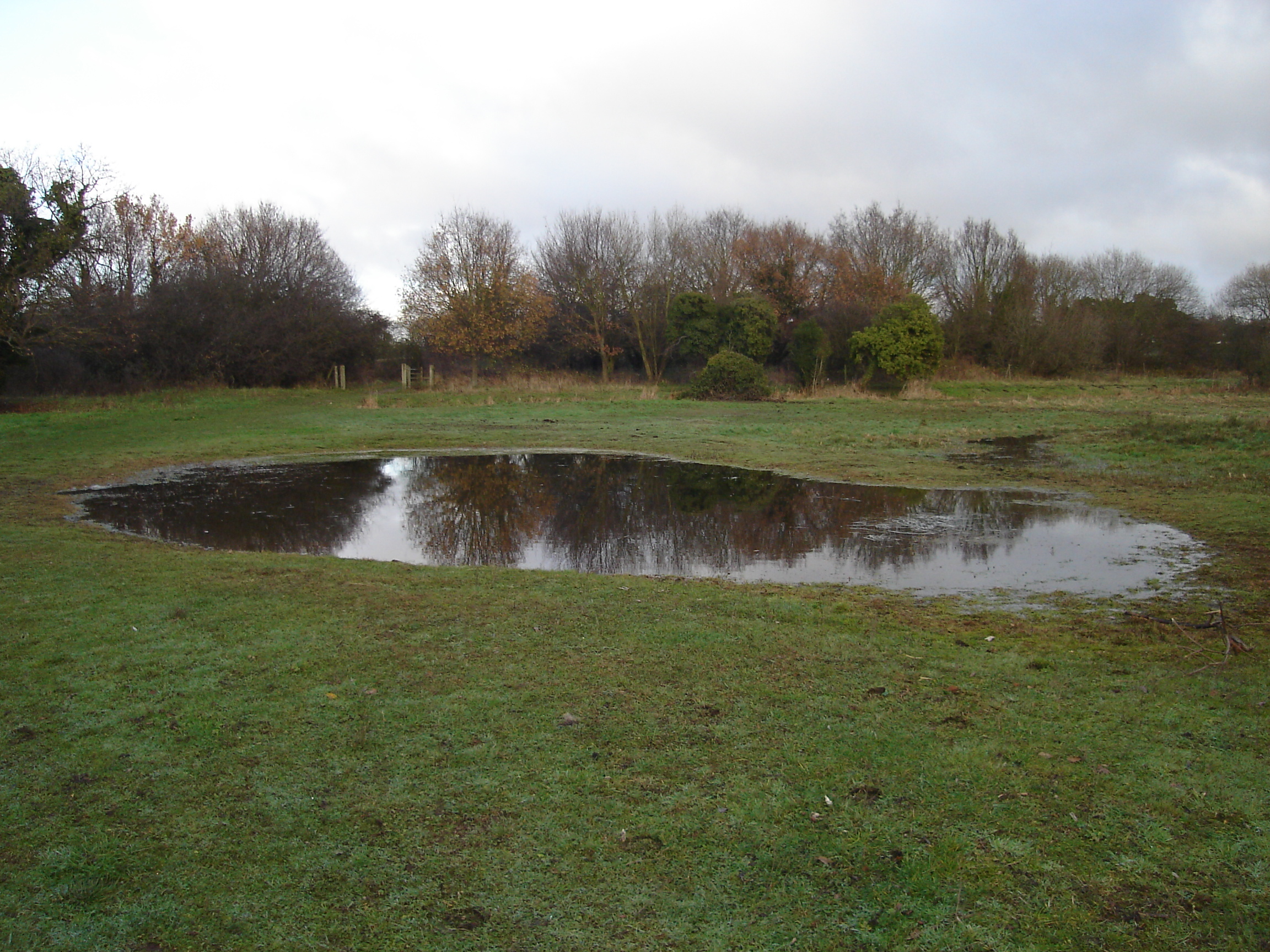 A view of the man-made pond at Mile Cross Marsh , Norwich part of the Wensum Local Nature Reserve